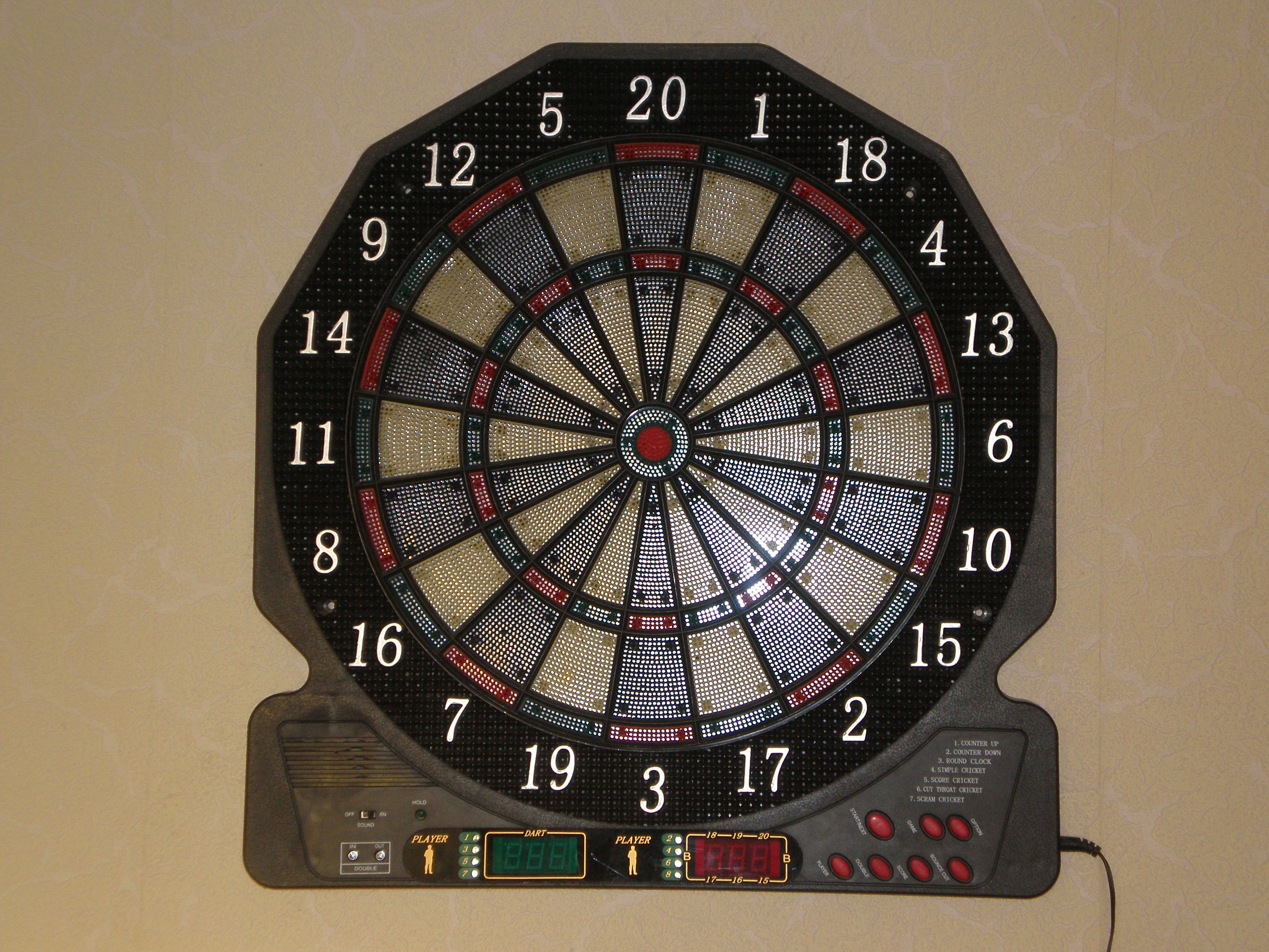 Electronic dart board.